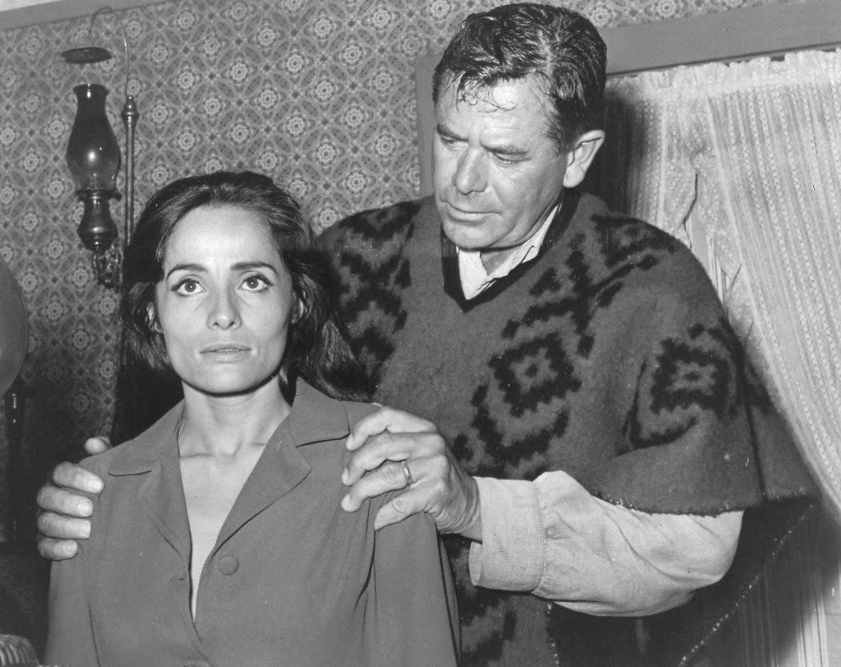 Publicity photo of Mexican actress Pilar Pellicer and American actor Glenn Ford taken in 1968.